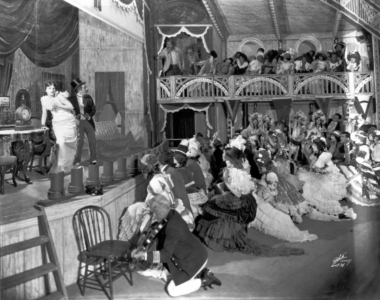 Promotional photograph of the original Broadway production of the musical Show Boat Caption reads as follows:Scene from Show Boat, the Ziegfeld musical comedy based on the novel of the same name by Edna Ferber. The lyrics are by Oscar Hammerstein 2nd and the music by Jerome Kern.